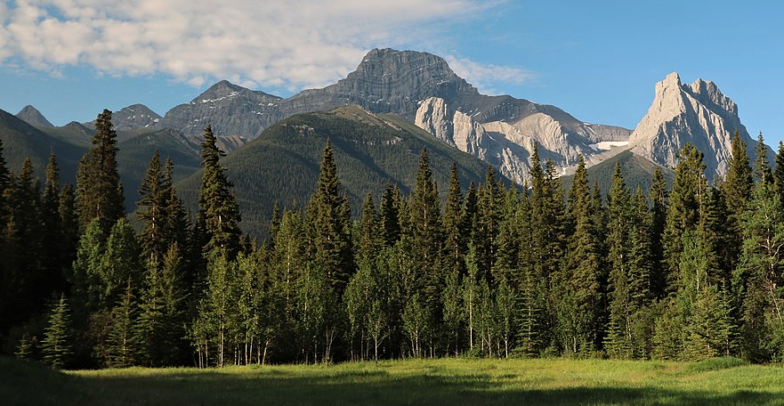 Mount Lougheed and Windtower near Canmore, BC Canada